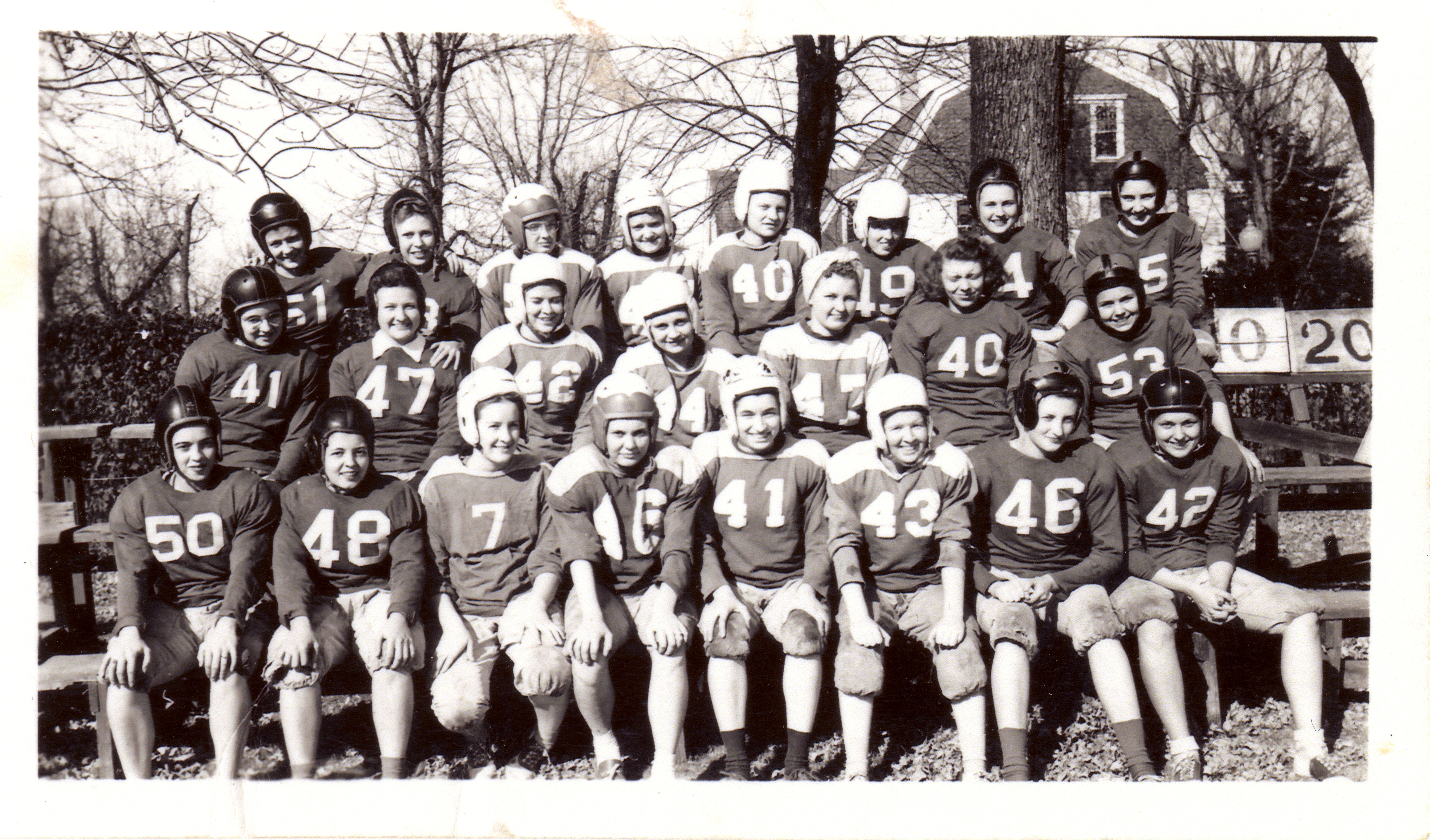 BACK ROW (L to R) Mary Pardy, Beverly Coombs, Marlys Bower, Doris Treloar, Muriel Tupper, Joyce Rave, Nancy Baughman, Susie Lowrie. MIDDLE ROW: Anna Ruth Lang, Dorothy Carper, Phyllis Linafelter, Ruth Hart, Joyce Walters, Beverly Rubin, Barbara Stearns. FRONT ROW: Donna Haley, Laurel Caldwell, Dona Keiner, Jeanette Johnson, Carol Weber, Elaine Norris, Janis Holsworth, Pauline Grytness. (Photo courtesy of Barbara Stearns Turner)